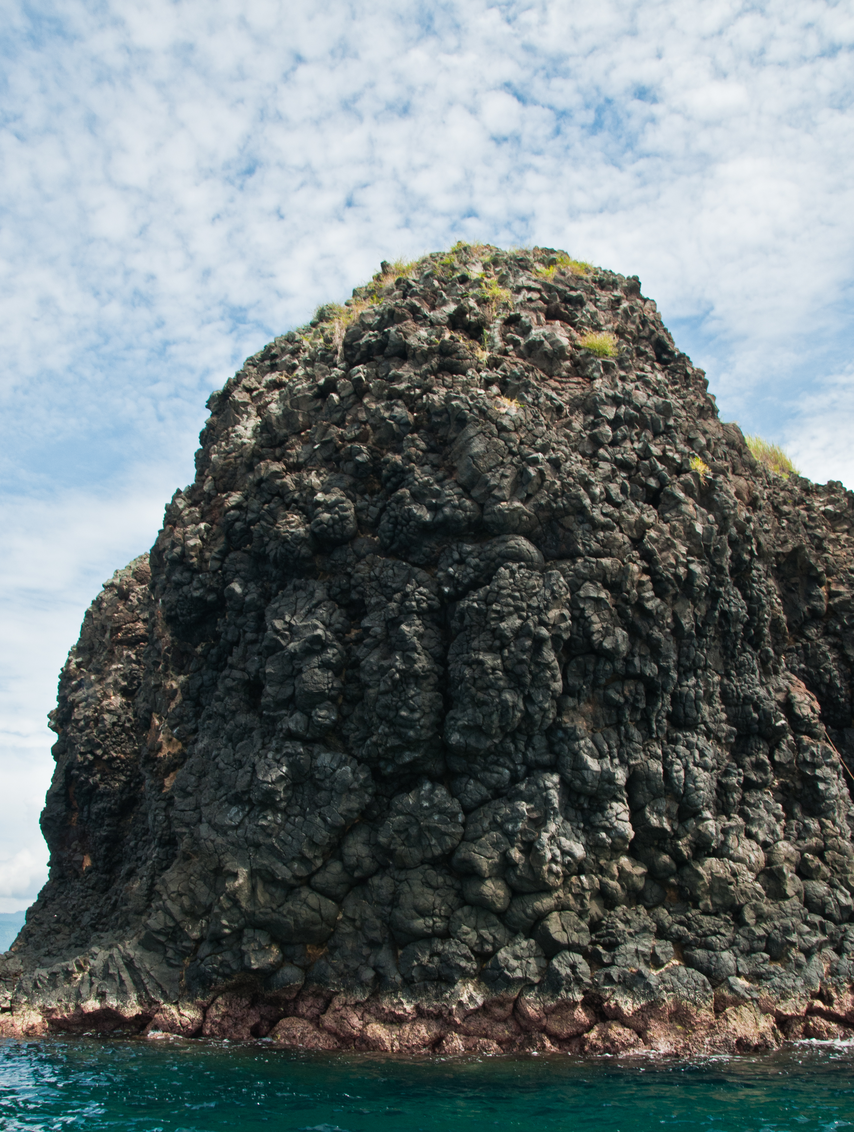 A small island, made of pillow lava, near Candidasa and Manggis in Bali, Indonesia.